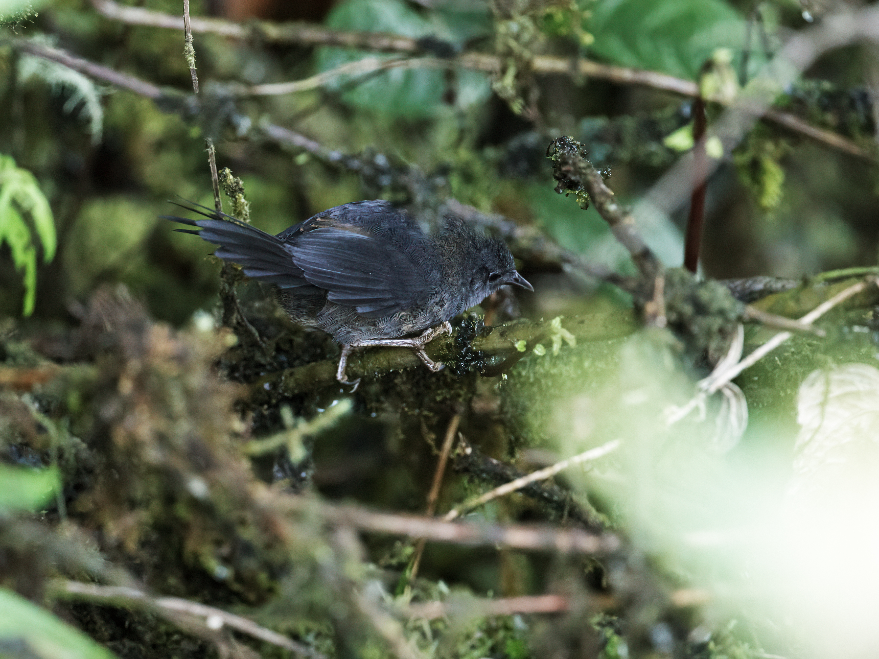 Ash-colored Tapaculo from Yanacocha Reserve, Pichincha, Ecuador.